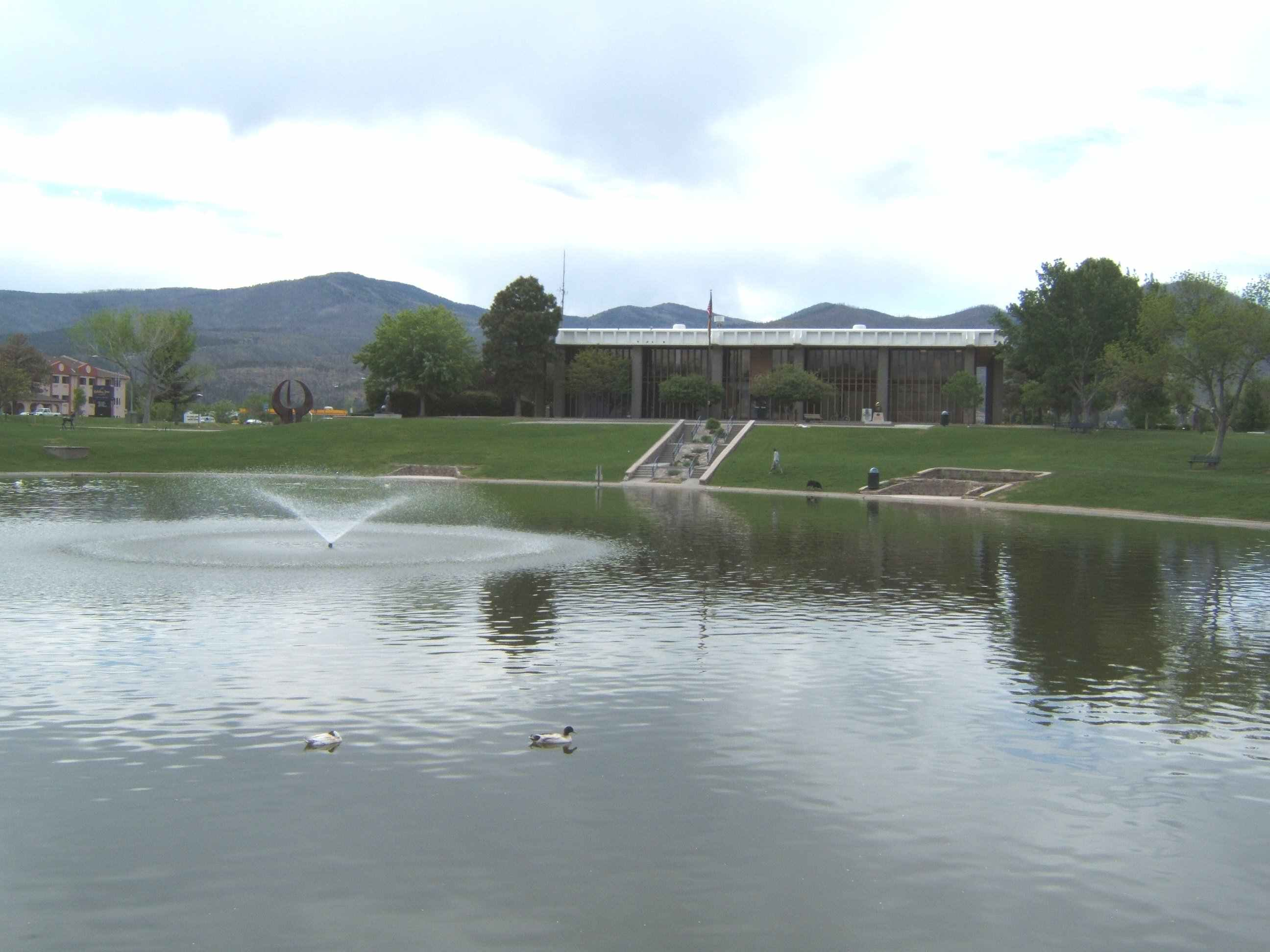 County municipal building across Ashley Pond. (Note added May 2009: The County Municipal Building pictured here was demolished in 2008, and the Los Alamos County Judicial/Police-Jail Complex is being constructed on the site, with completion scheduled for May 2010.)